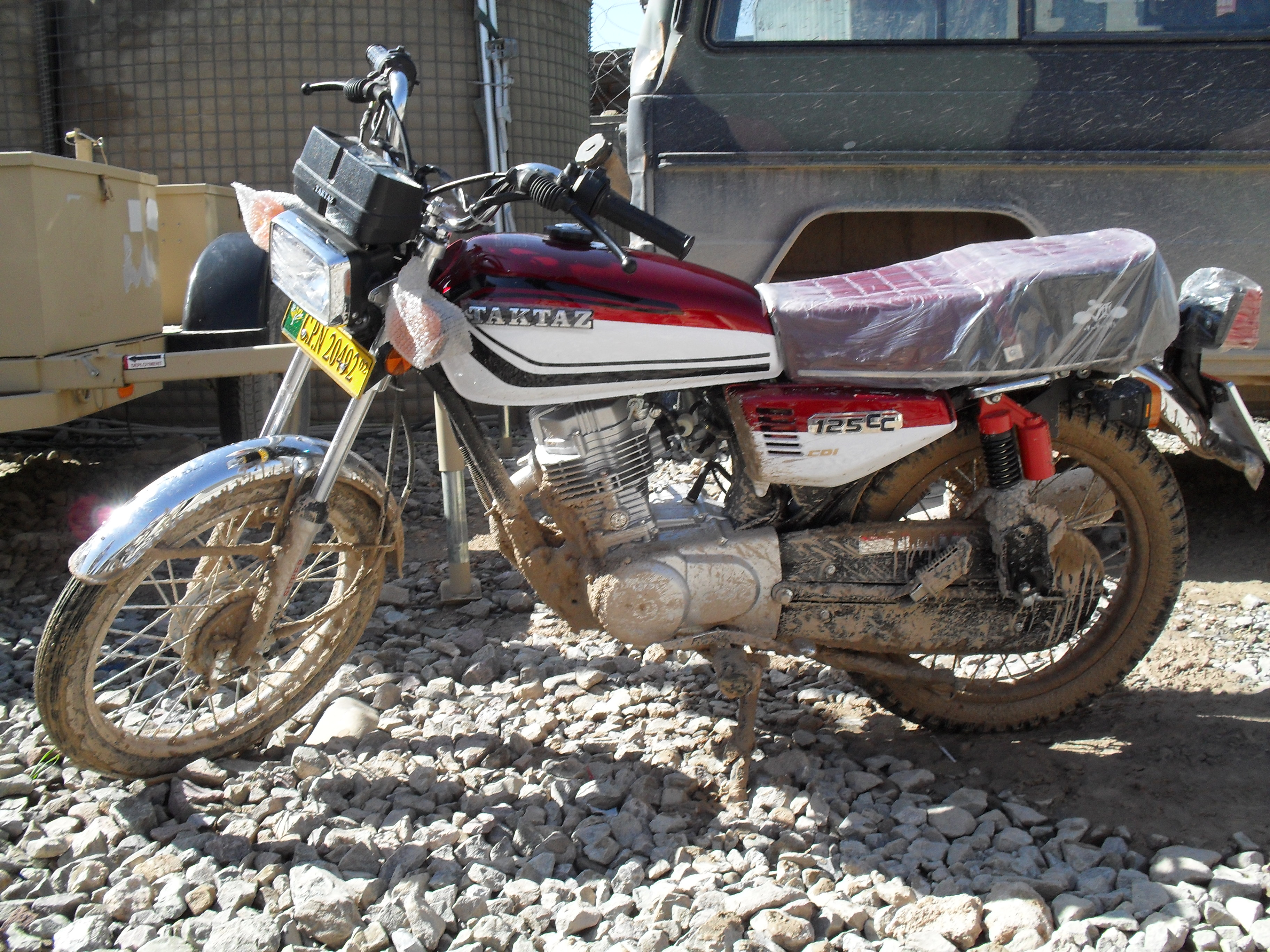 Tak Taz 125 CC with a Hartford four stroke engine